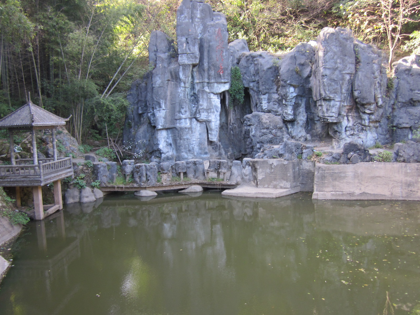 A pond in Dishui Cave.